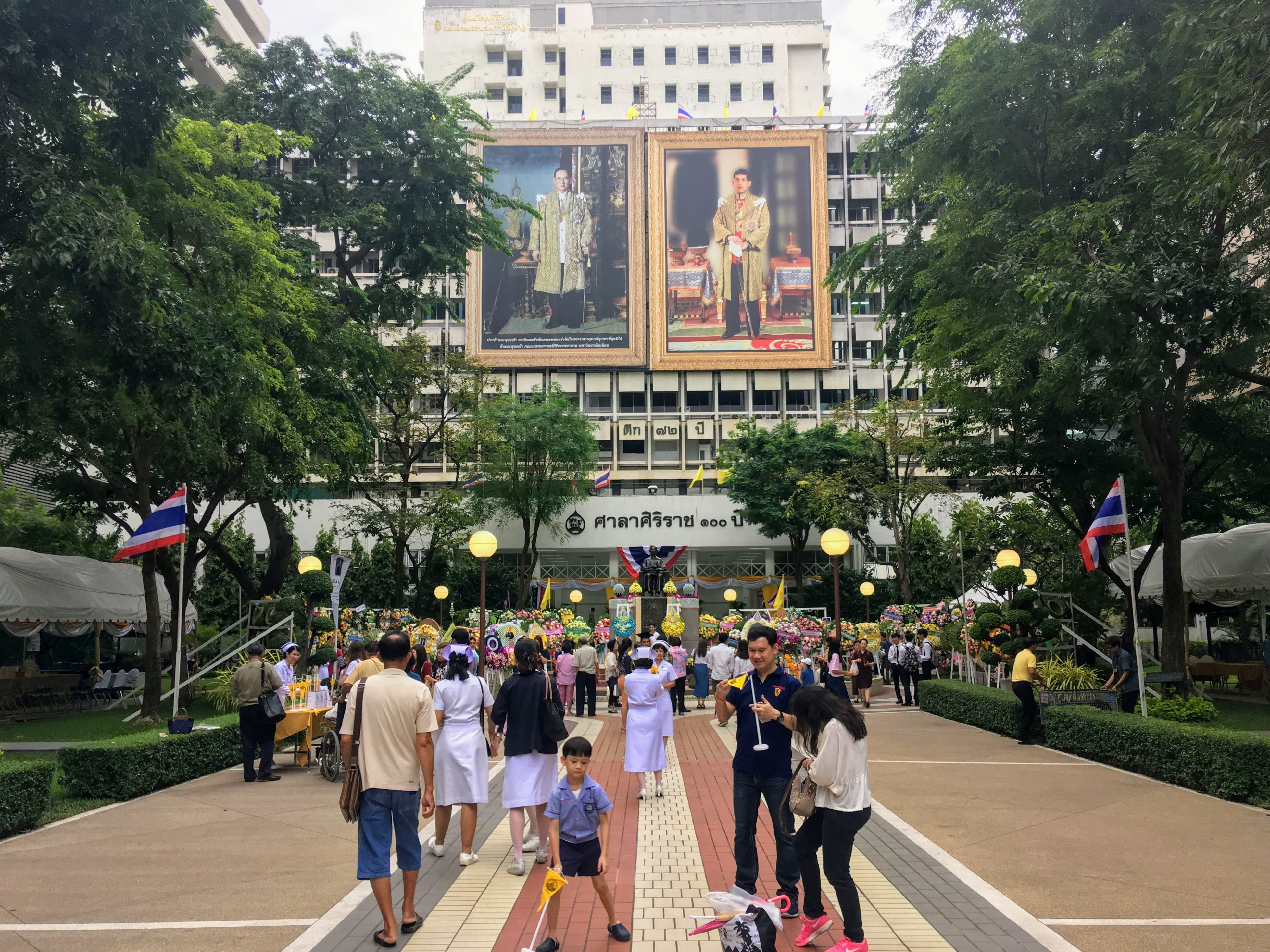 Siriraj Hospital after Mahidol Day Ceremony in September 24th, 2018.